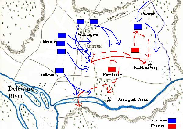 The Battle of Trenton, stage 2.